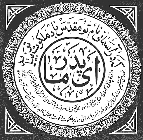 Lord's Prayer in Persian (farsi)